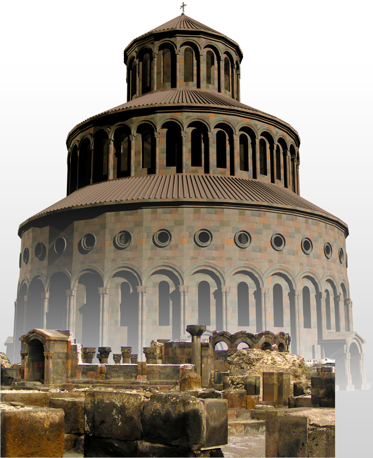 Reconstruction of Zvartnots Cathedral after Toromanian overlaid on photograph of ruins (Edgar Papazian)